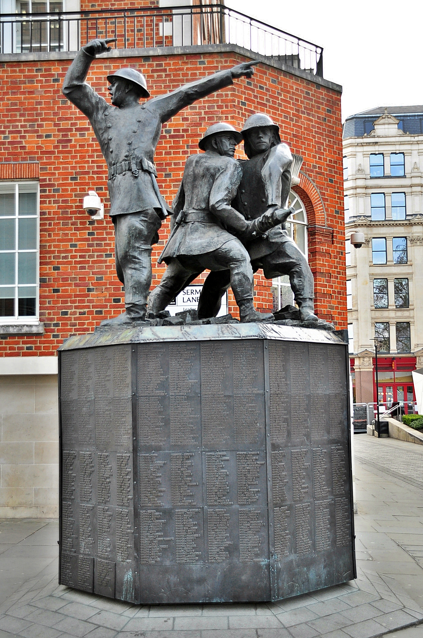 National Firefighters Memorial by John W. Mills, located south of St. Paul's Cathedral. Unveiled by Queen Elizabeth The Queen Mother on May 4, 1991.